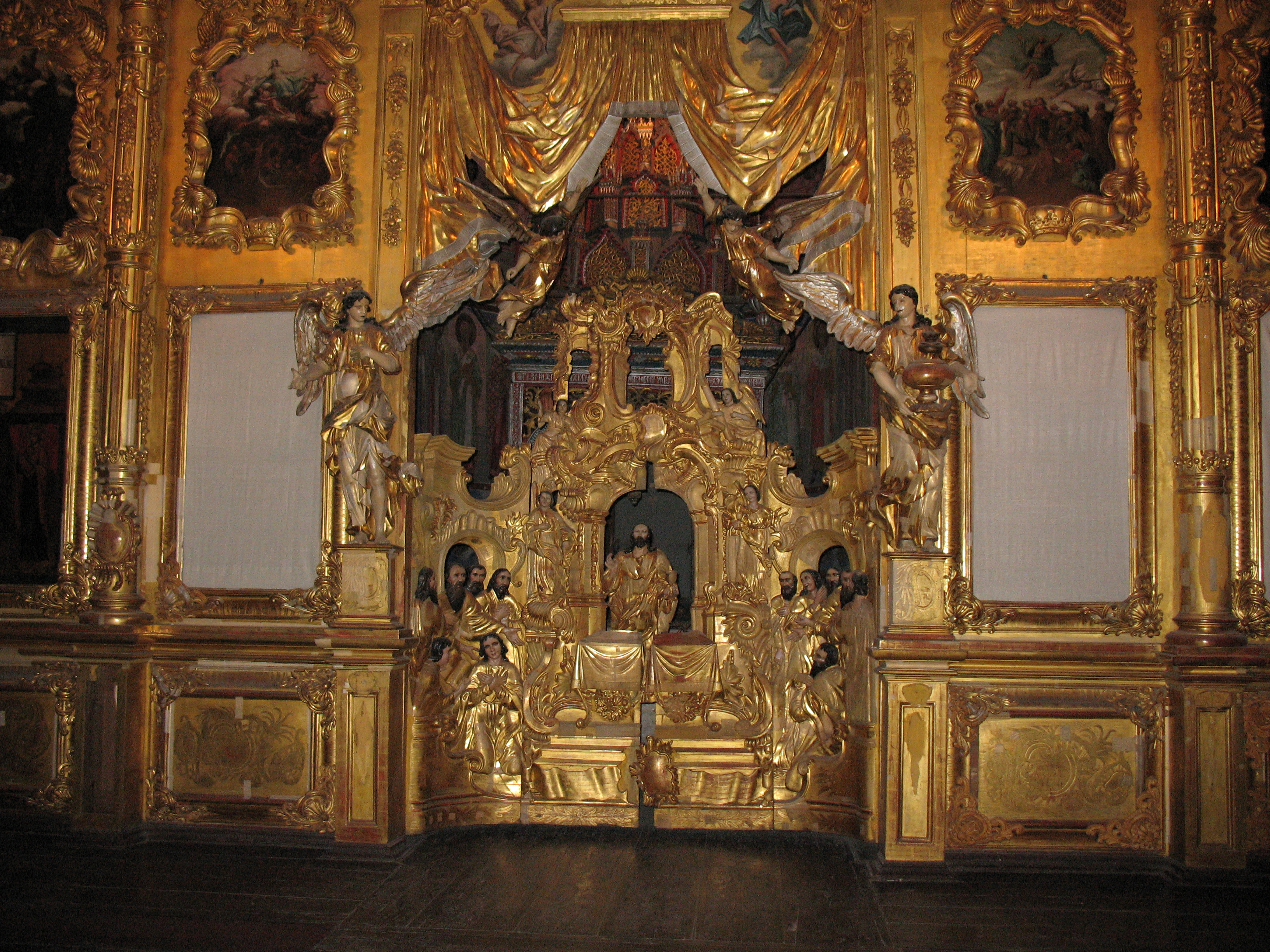 Iconostas from Church of St. Nicholas Nadein, Yaroslavl